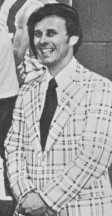 Gardner–Webb Runnin' Bulldogs men's basketball head coach Eddie Holbrook in 1974.